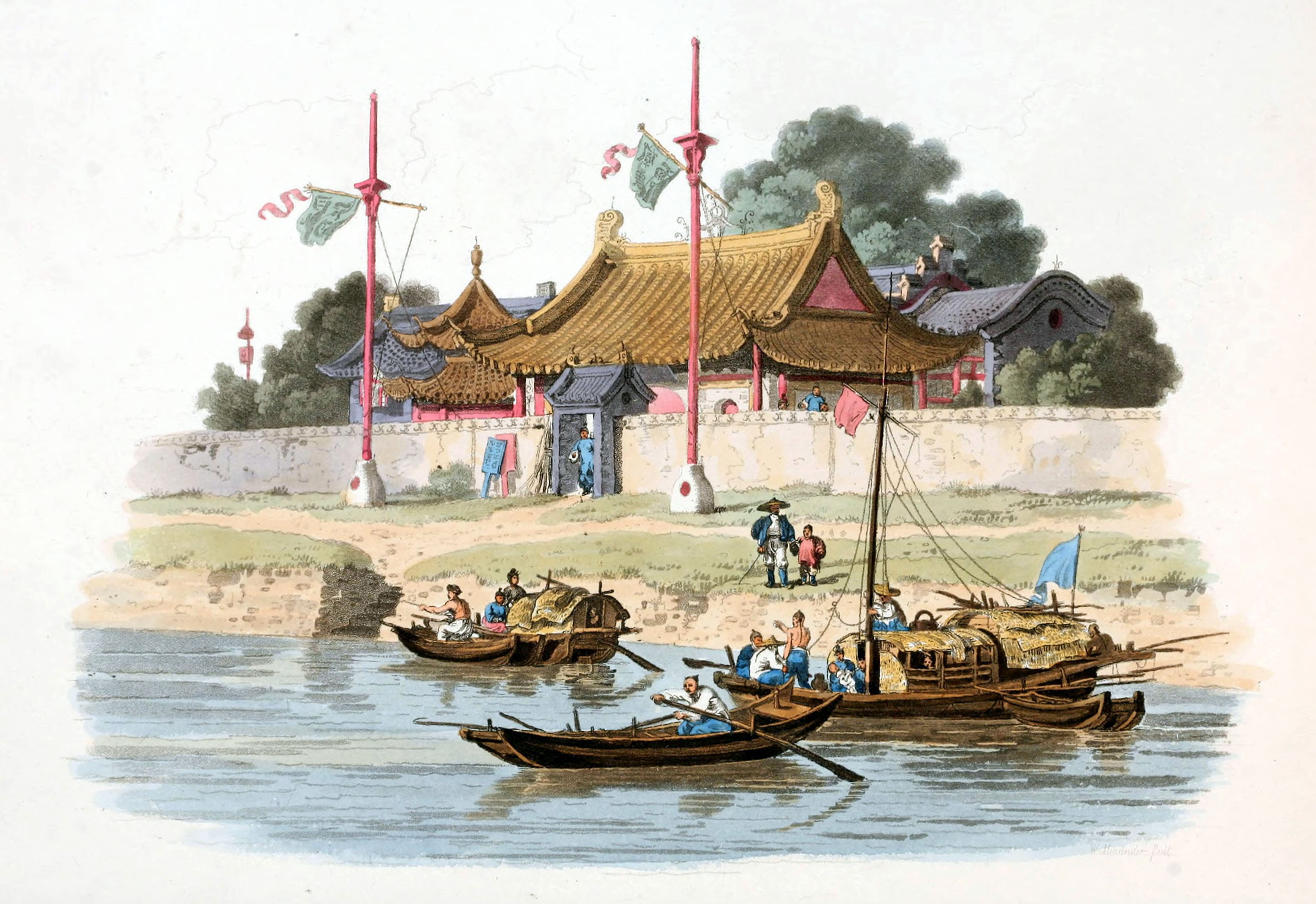 Drawing by William Alexander, draughtsman of the Macartney Embassy to China in 1793. The habitation of a Chinese mandarin. The house of a mandarin is generally distinguished by two large poles erected before the gate; in the day time flags are displayed on the poles as ensigns of his dignity, and during the night painted lanthorns are suspended on them. Alexander writes that the superior Chinese choose to live in great privacy, their habitations therefore are generally surrounded by a wall; their houses seldom exceed one story in height, though there are some few exceptions, as in the residence of the British Embassy at Peking. The rooms of a Chinese house are without ceilings, so that the timbers supporting the roof are exposed. The common articles of furniture are frames covered with silk of various colors, adorned with moral sentences, written in characters of gold, which are hung in the compartments; on their tables are displayed curious dwarf trees, branches of agate, or gold and silver fish, all which are placed in handsome vessels of porcelain. Image taken from The Costume of China, illustrated in forty-eight coloured engravings, published in London in 1805.